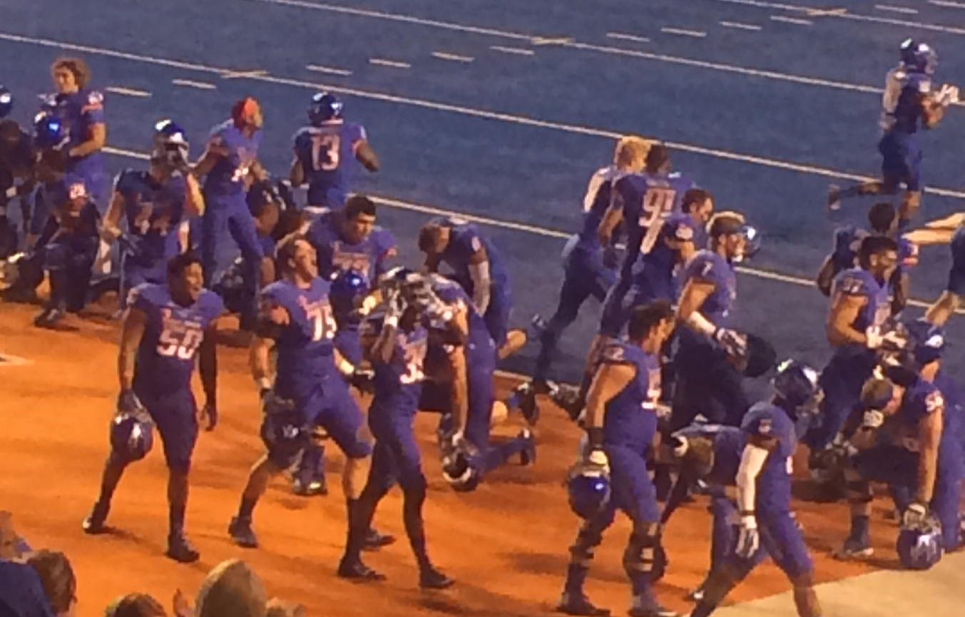 Boise State players during pregame of their game vs Colorado State on September 6, 2014 at Albertsons Stadium in Boise, Idaho.